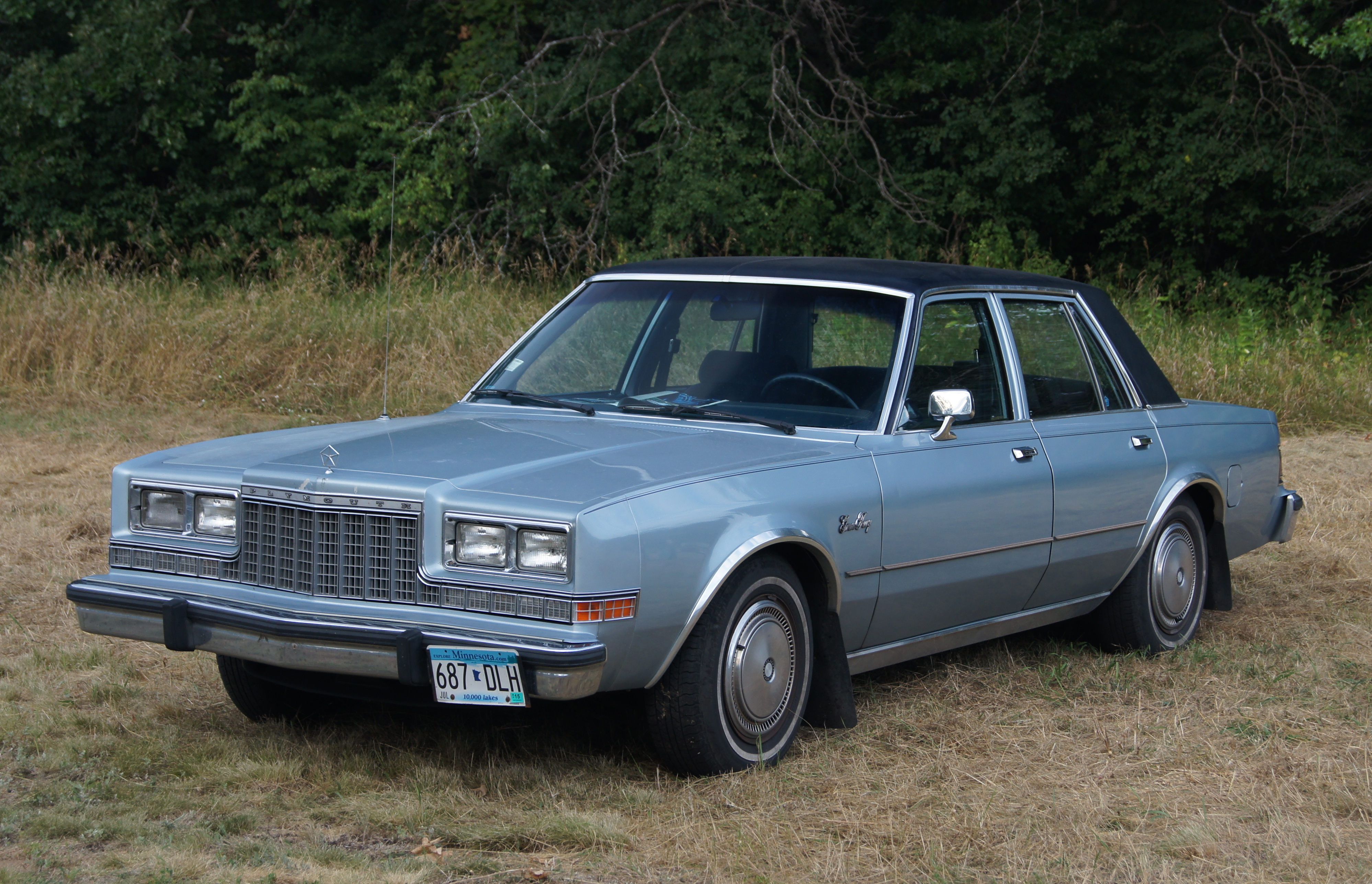 A 1986 Plymouth Gran Fury Salon at the 28th Annual New London to New Brighton Antique Car Run.